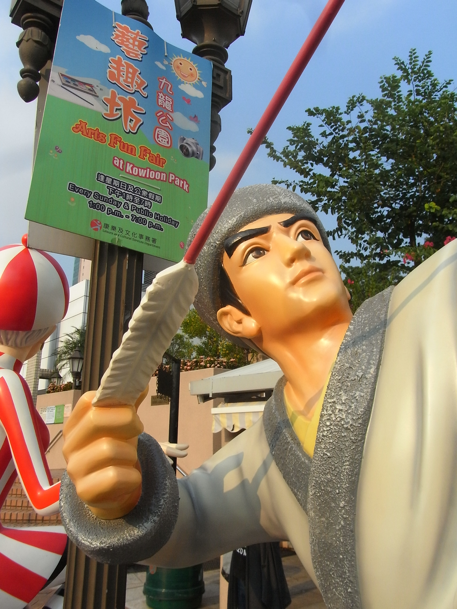 香港漫畫星光大道, Hong Kong Avenue of Comic Stars, Kowloon Park, Nathan Road, Tsim Sha Tsui, Hong Kong